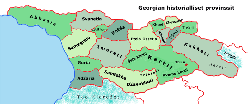 A map of historical areas in Georgia, in Finnish